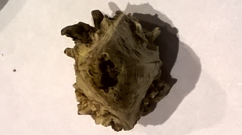 Top view of endocarp of the Vitex lucens Puriri fruit. Some hooks can be seen at 11 oclock. Orifice at top is where seeds inside germinate through.